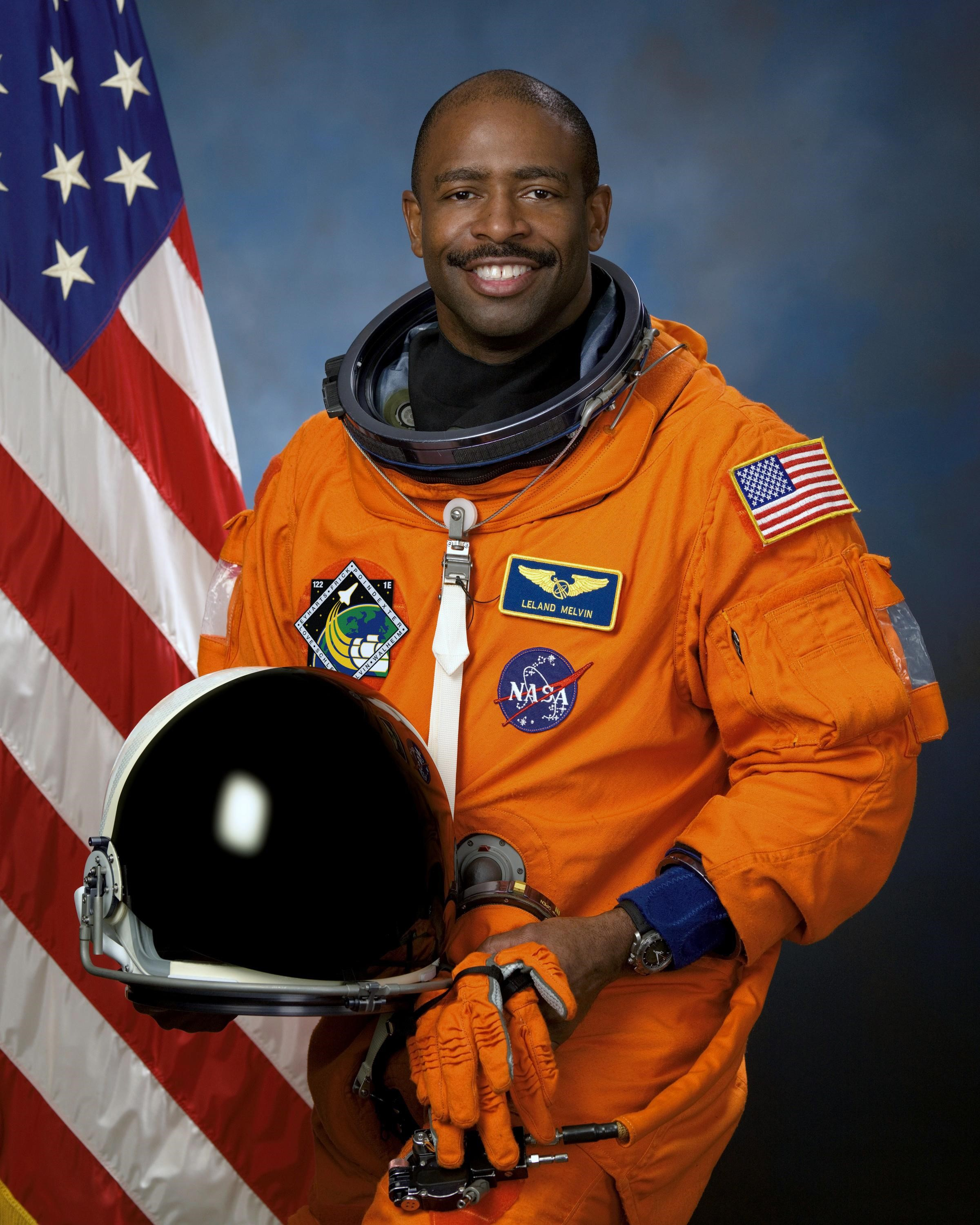 Leland D. Melvin official portrait